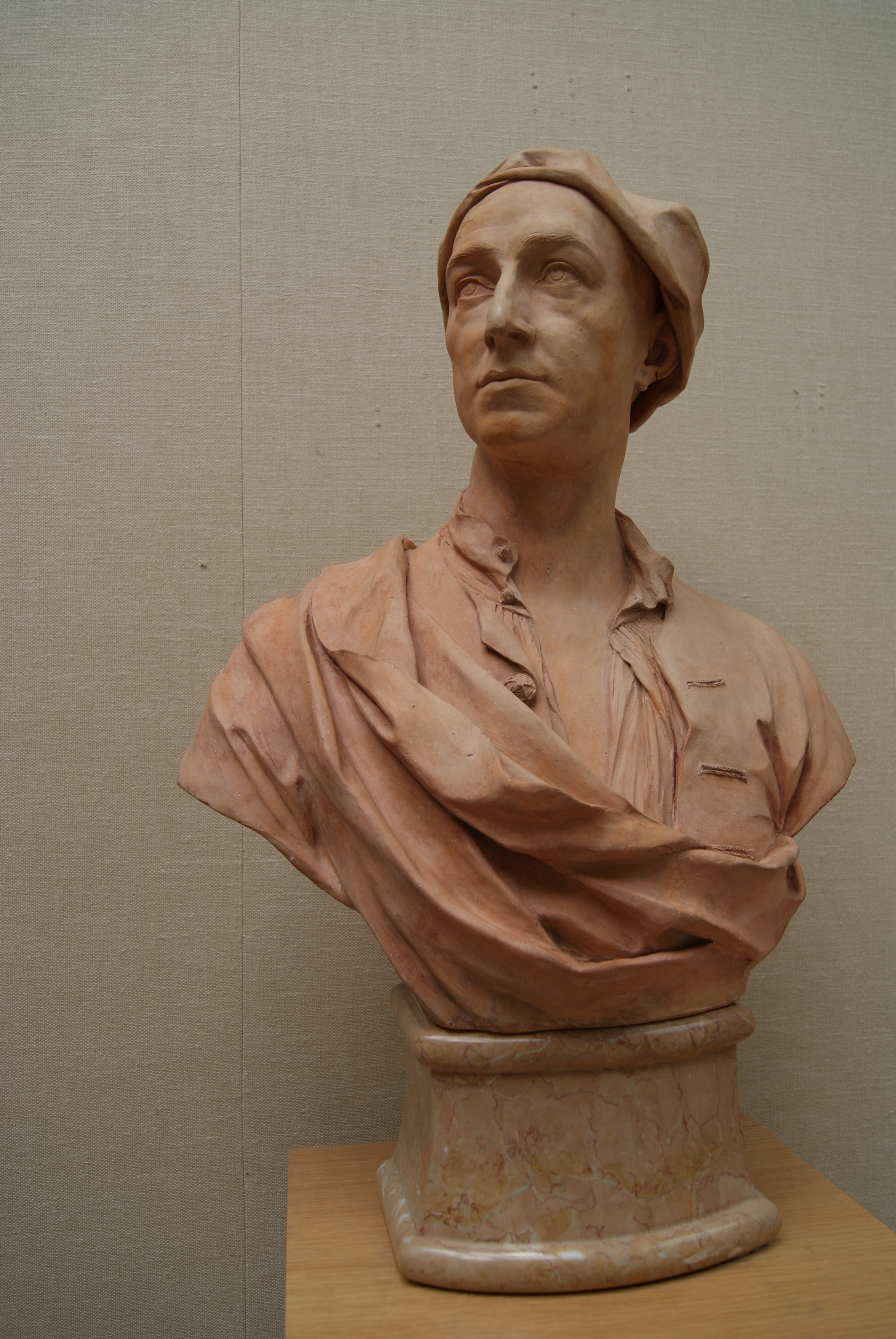 A bust of a man, probably the Flemish painter Peter Tillemans.